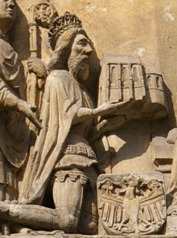 King Casimir III of Poland, detail of a foundation plaque (1464) of St. Mary's Birth Basilica in Wiślica